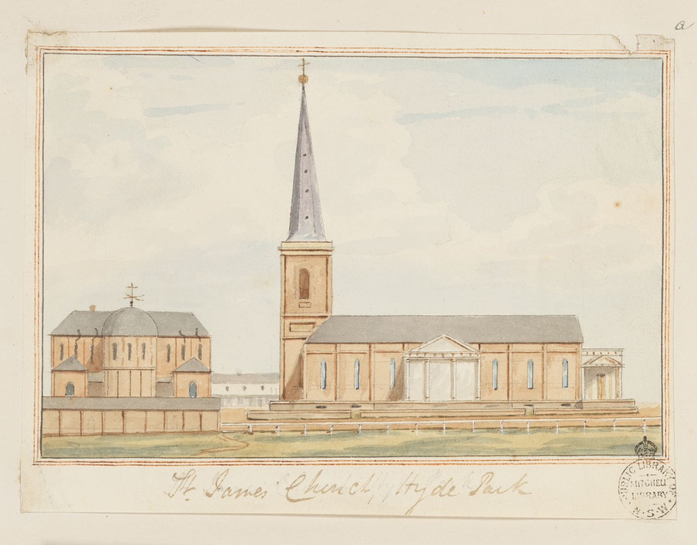 Painting by Frederick Garling of St James Anglican church, Sydney